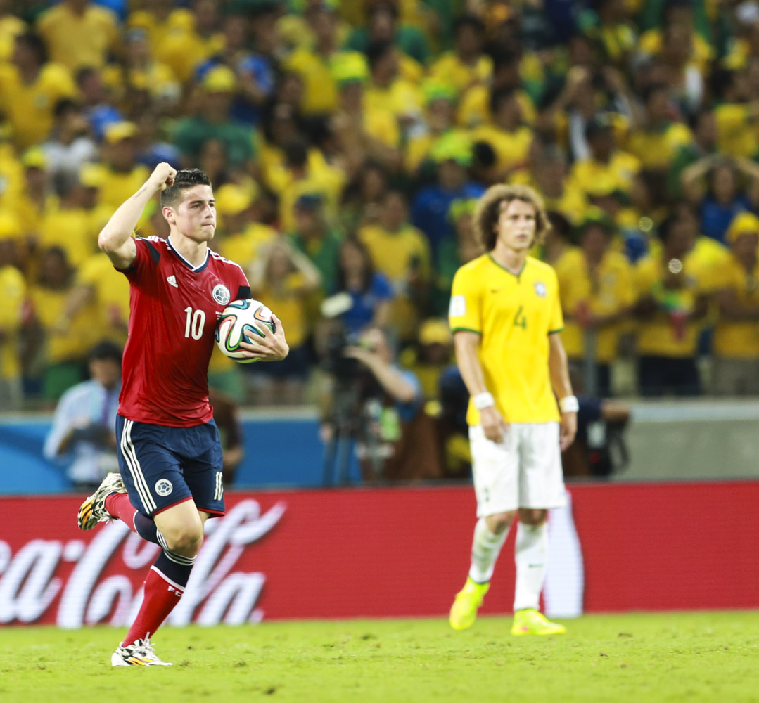 Brazil and Colombia match at the FIFA World Cup 2014-07-04